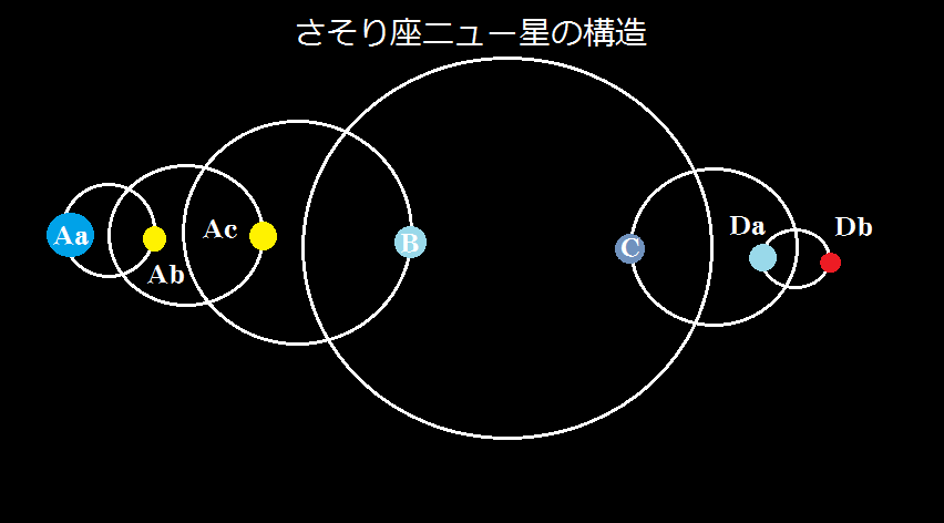 This picture shows construction of Nu Scorpii (ν Sco)